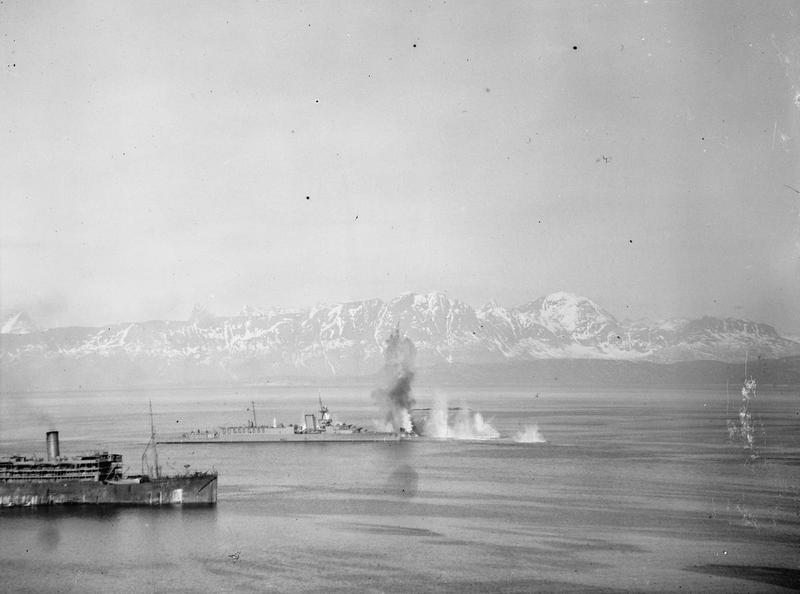 The Norwegian Campaign 1940- Naval Operations Bombs falling around the repair ship HMS VINDICTIVE at anchor in Harstad fiord, 17 May 1940.